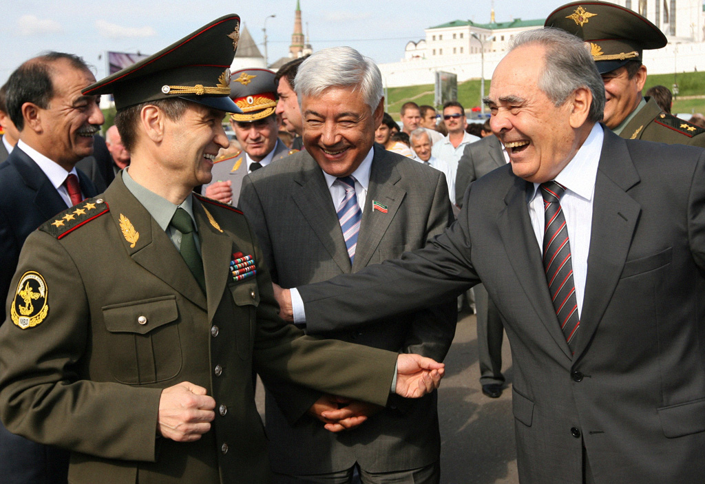 “Days of Tatarstan's militia start in Kazan”. Federal Minister of Internal Affairs Rashid Nurgaliyev, Chairman of Tatarstan's State Council Farid Mukhametshin, and Tatarstan's President Mintimer Shaimiyev, from left to right, during the opening of the Days of Tatarstan's militia in the Square of Kazan's Millennium.